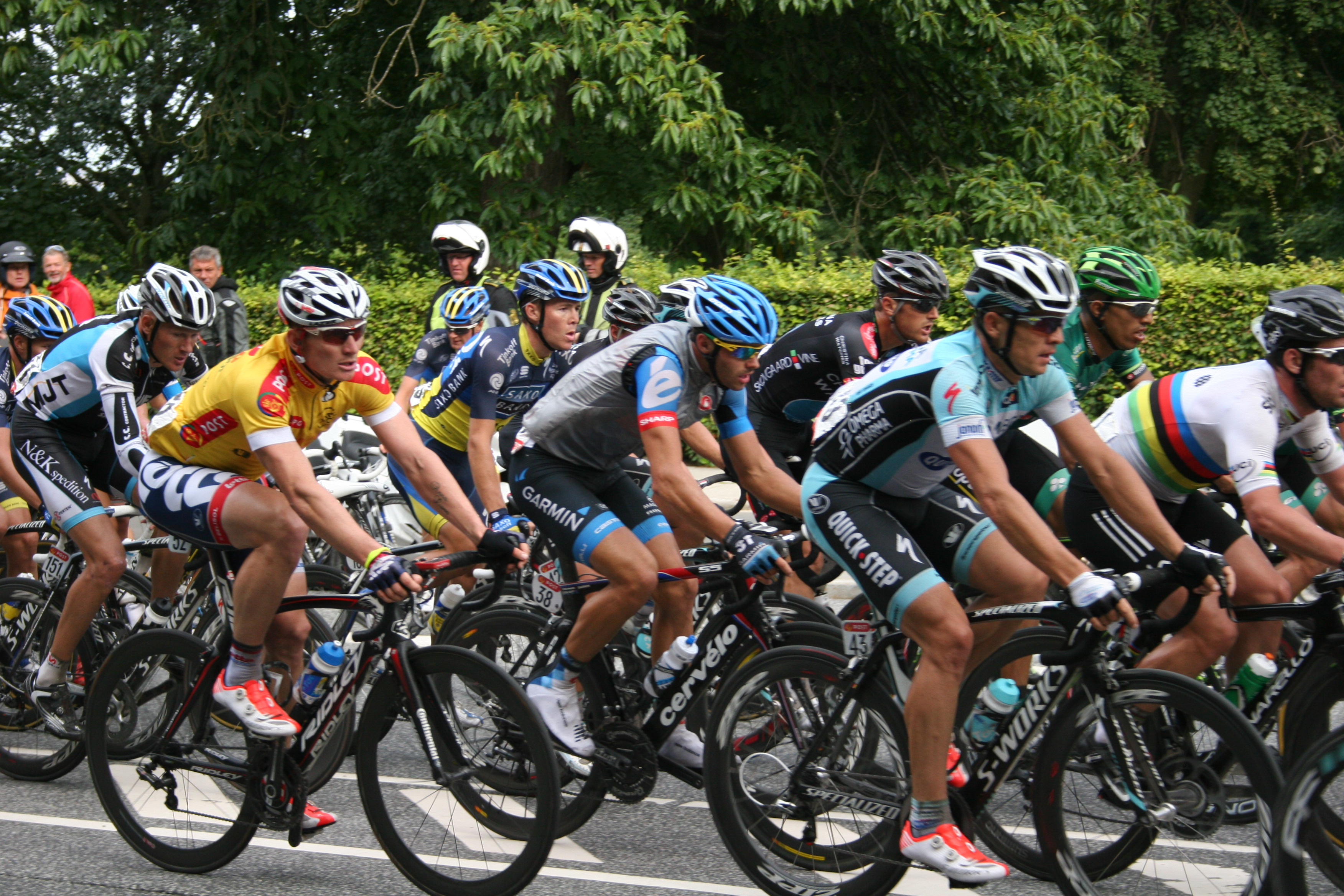 Greipel at Post Danmark Rundt 2012 - stage 2, in Aarhus